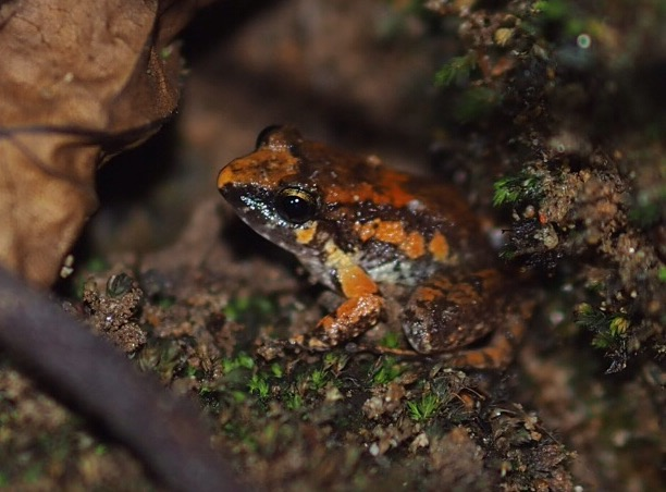 male Limnonectes hascheanus in breeding season from Trang, southern Thailand